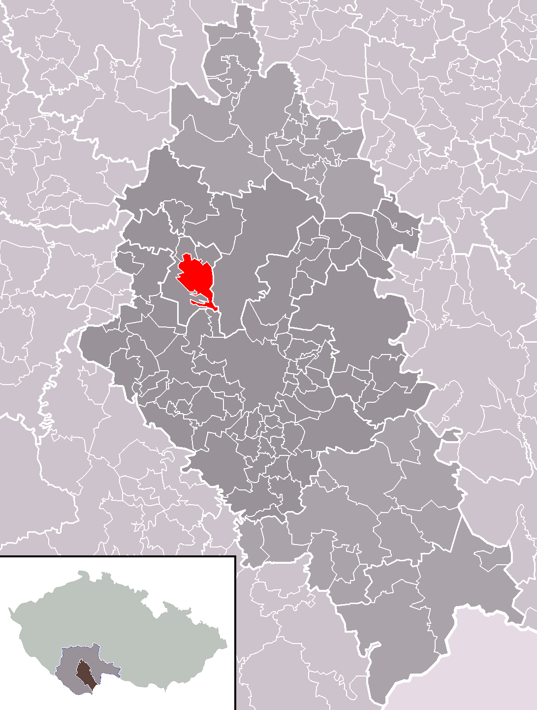 Location of Zliv town within České Budějovice District and administrative area of České Budějovice as a Municipality with Extended Competence.